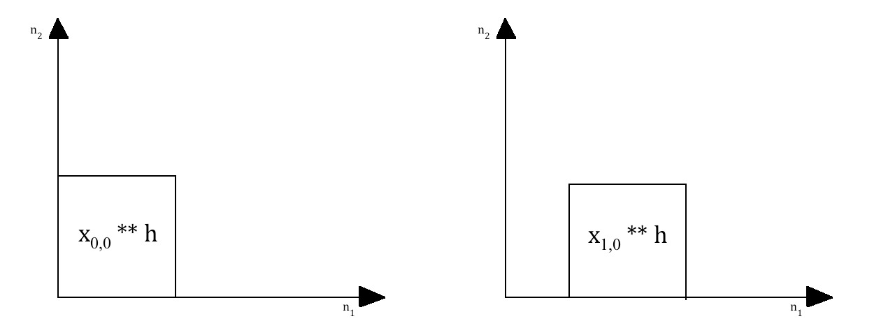 block convos